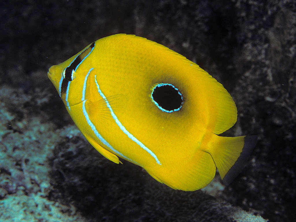 Chaetodon bennetti, Bluelashed butterflyfish. Underwater photograph, Pemba island, Tanzania, Africa.